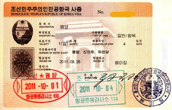 North Korea Visa issued by DPRK Embassy in Beijing